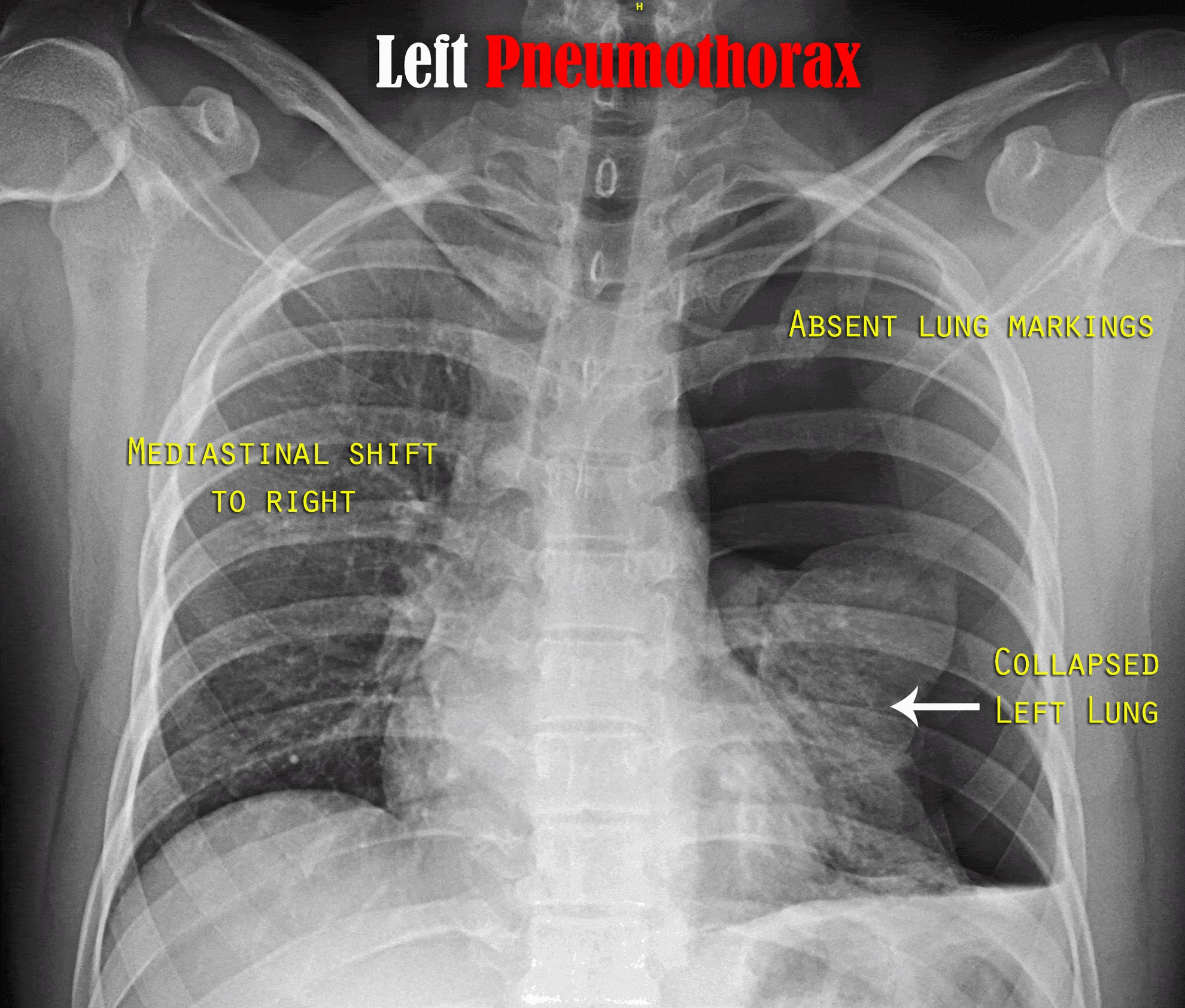 Chest X-ray showing the features of pneumothorax